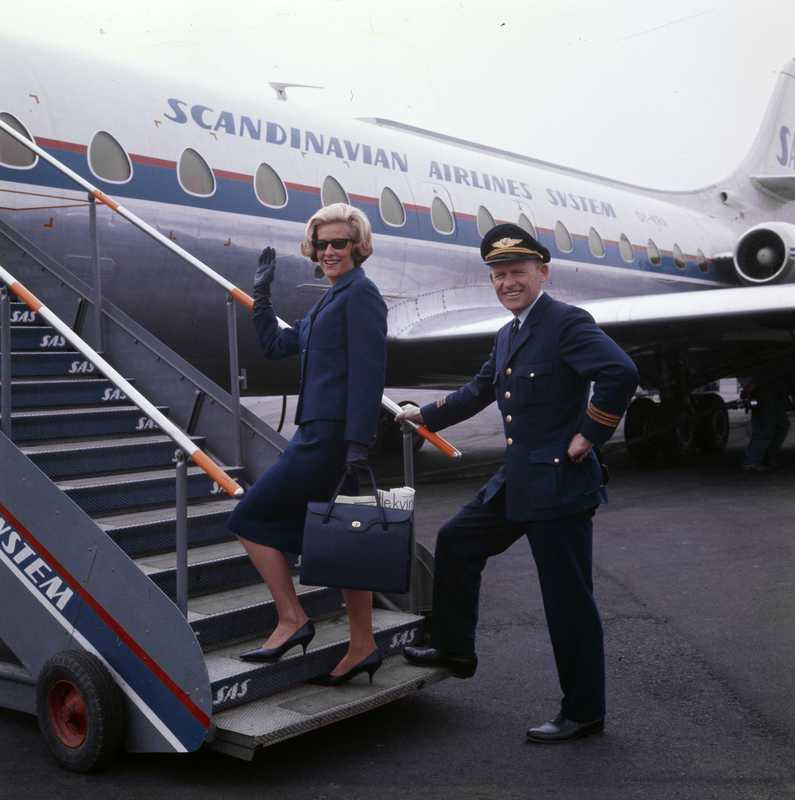 Scandinavian Airlines System (SAS) Sud Aviation Caravelle, flight attendant and pilot at Oslo Airport, Fornebu